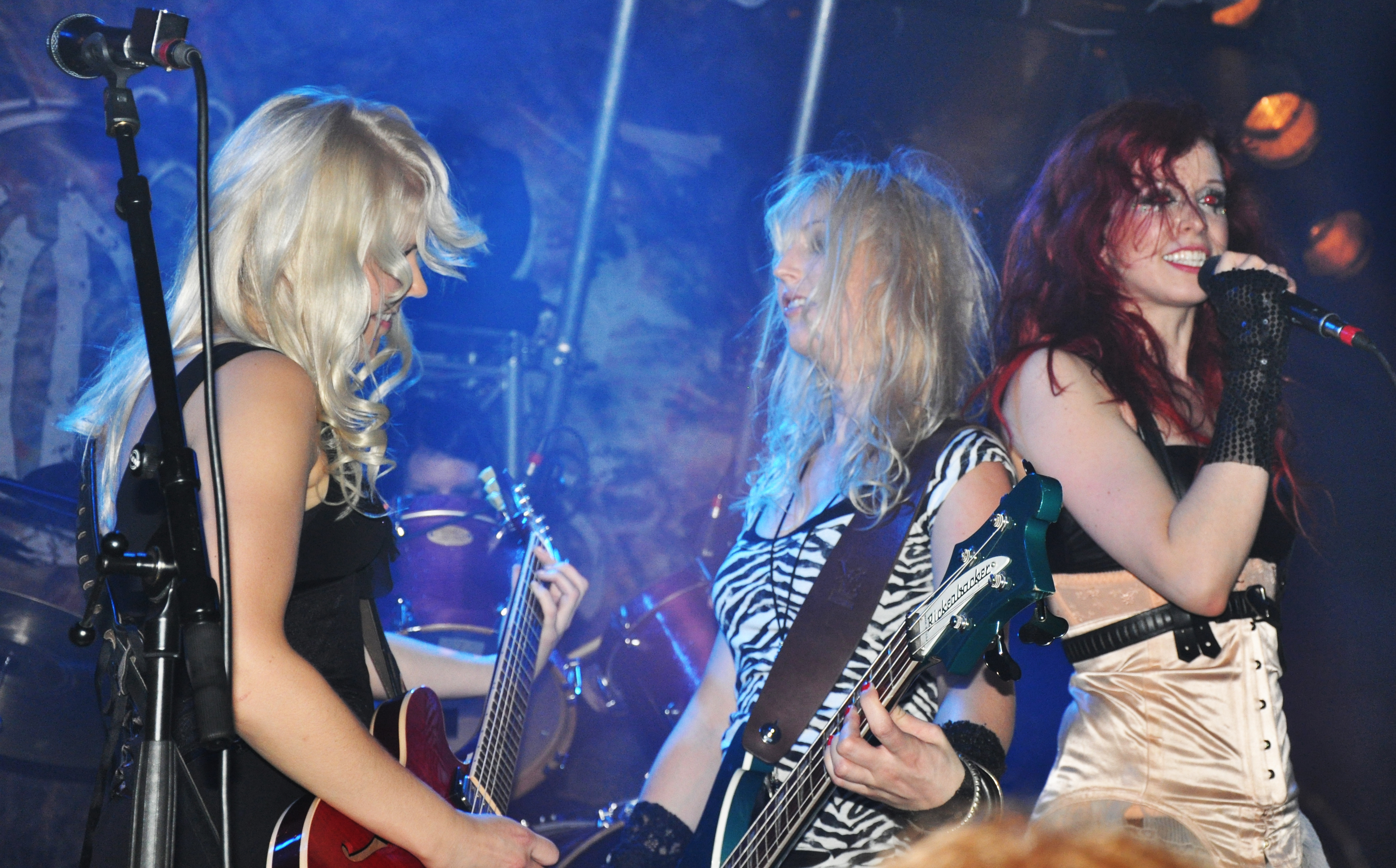 Jenny, Heini and Jonsu from Indica at a gig in Paris (2010-11-13)